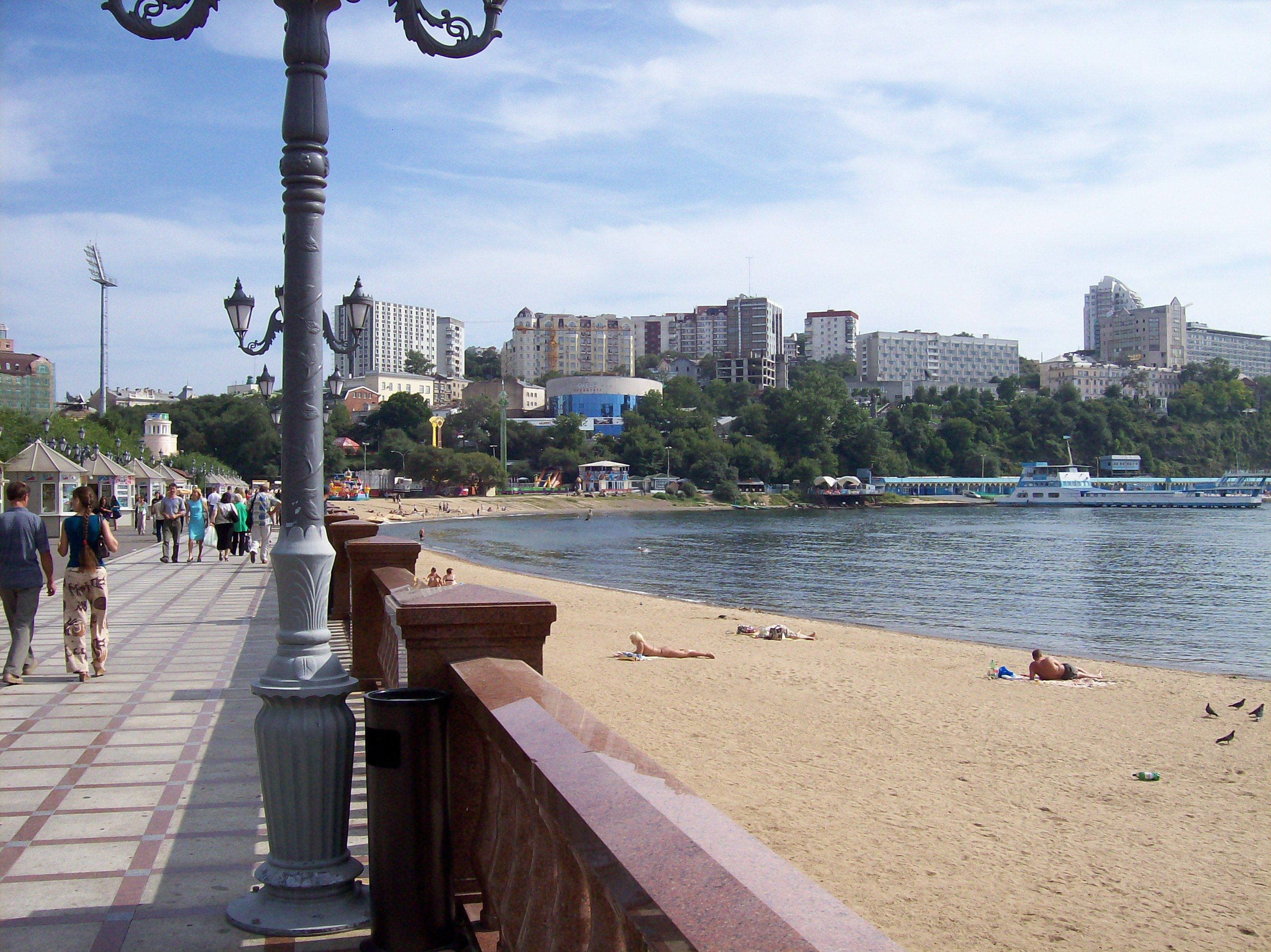 Владивосток, Спортивная Гавань